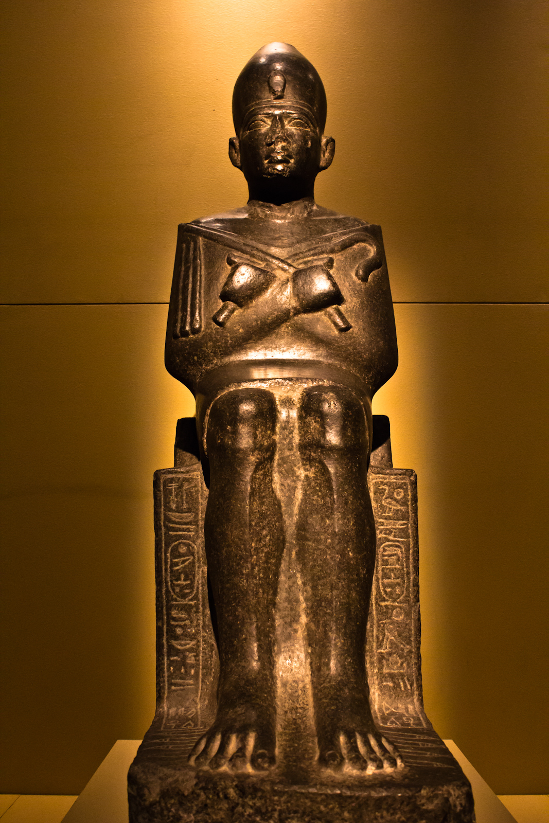 This rare grandiorite statue of king Merhotepre Sobekhotep, a shortlived pharaoh during the 13th dynasty of Egypt's Middle Kingdom Period is part of the permanent collection of the Cairo Museum of Egypt. It clearly shows both his cartouches. This photo was taken at the King Tut exhibition at the Pacific Science Center in Seattle, Washington State, USA in May 2012.